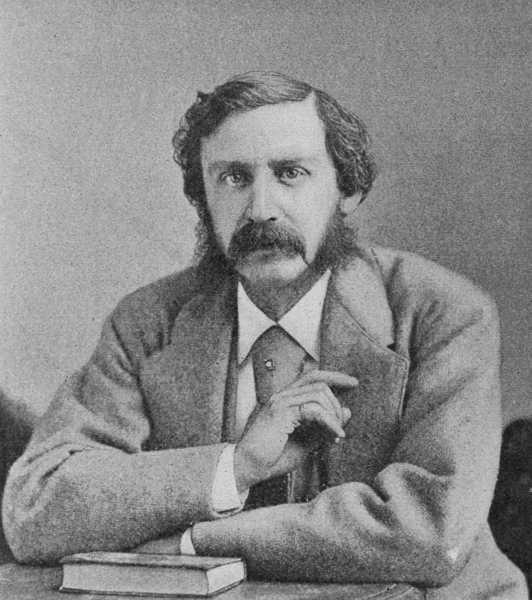 Bret Harte in 1872